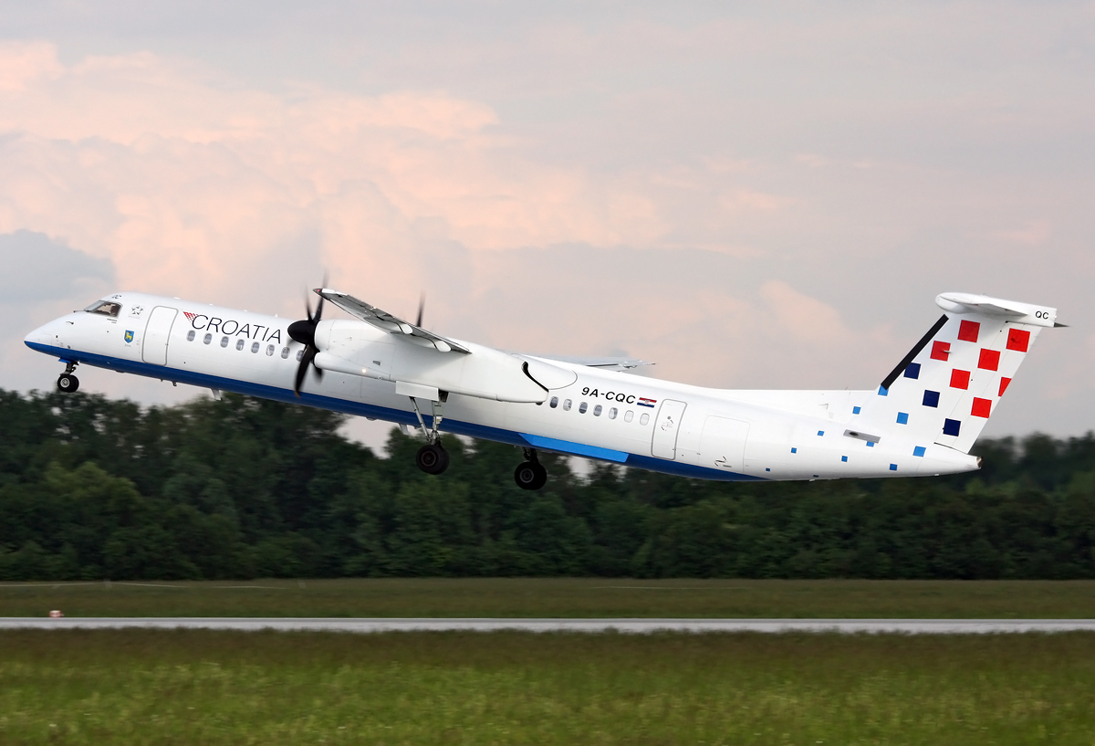 Bombardier Dash8-Q400 Croatia Airlines 9A-CQC